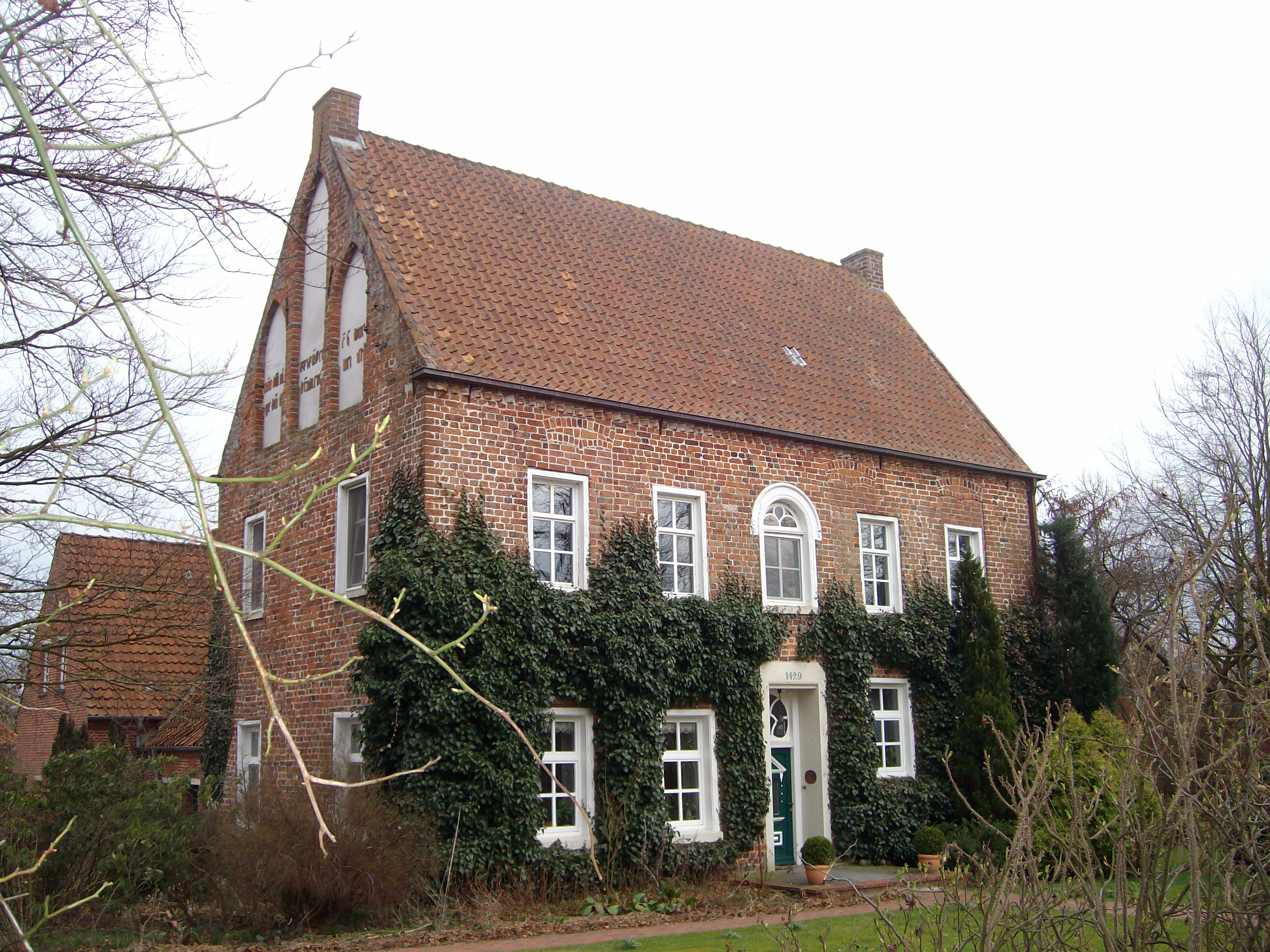 Rectory in Stapelmoor (1429)